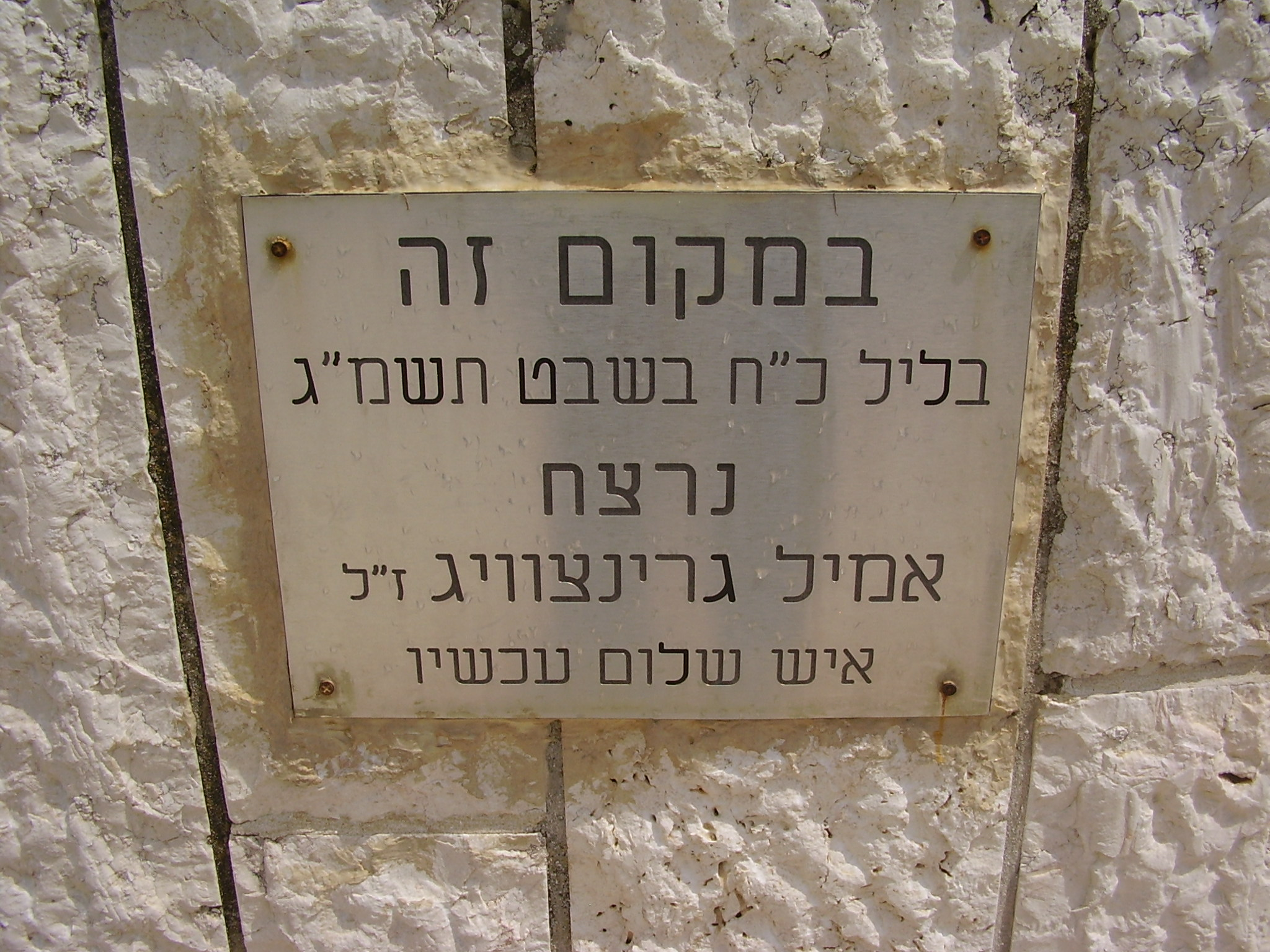 emil grunzweig memorial in jerusalem at the place where he was murdered